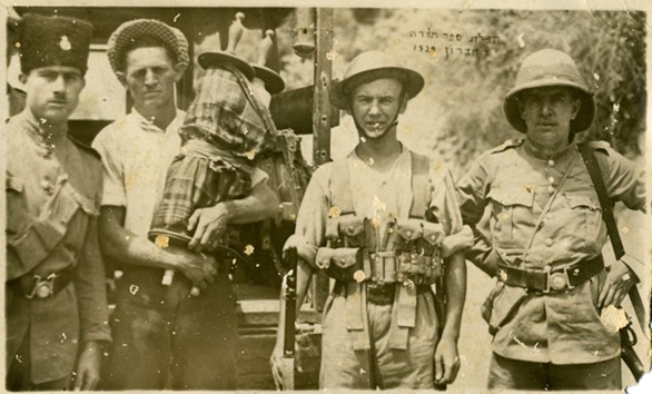 Army and police posing with Torah scroll. Hebron, 1929. The man on the left could be Raymond Cafferata.